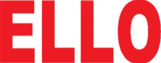 Official